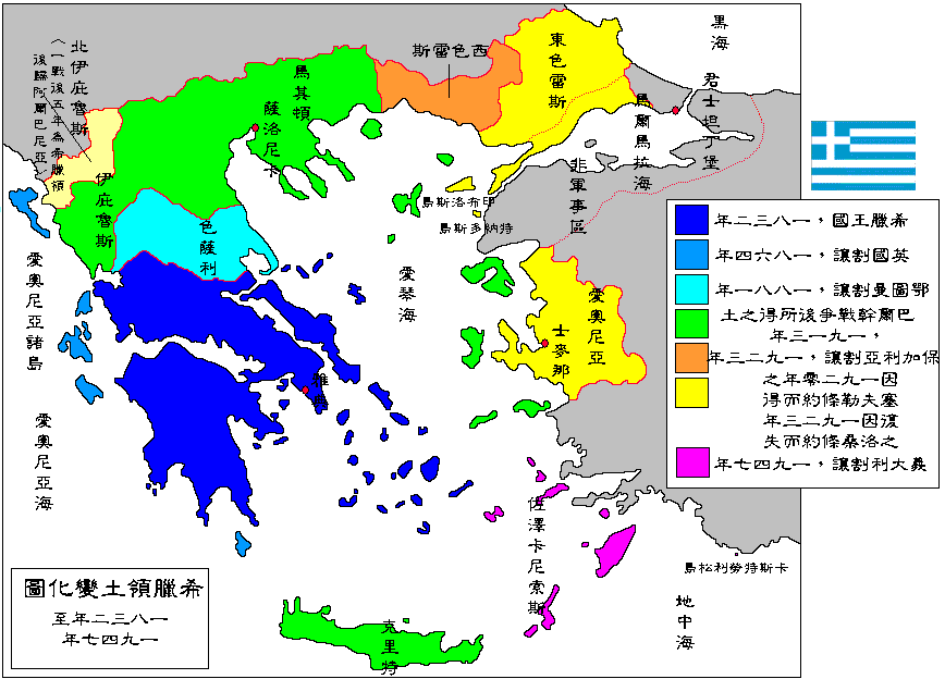 Territorial expansion of Greece (1832–1947).